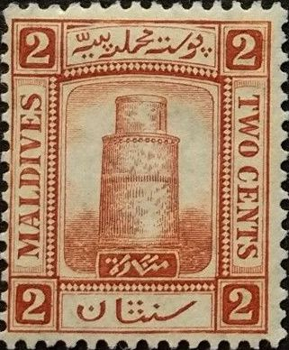 Maldives 1909 02